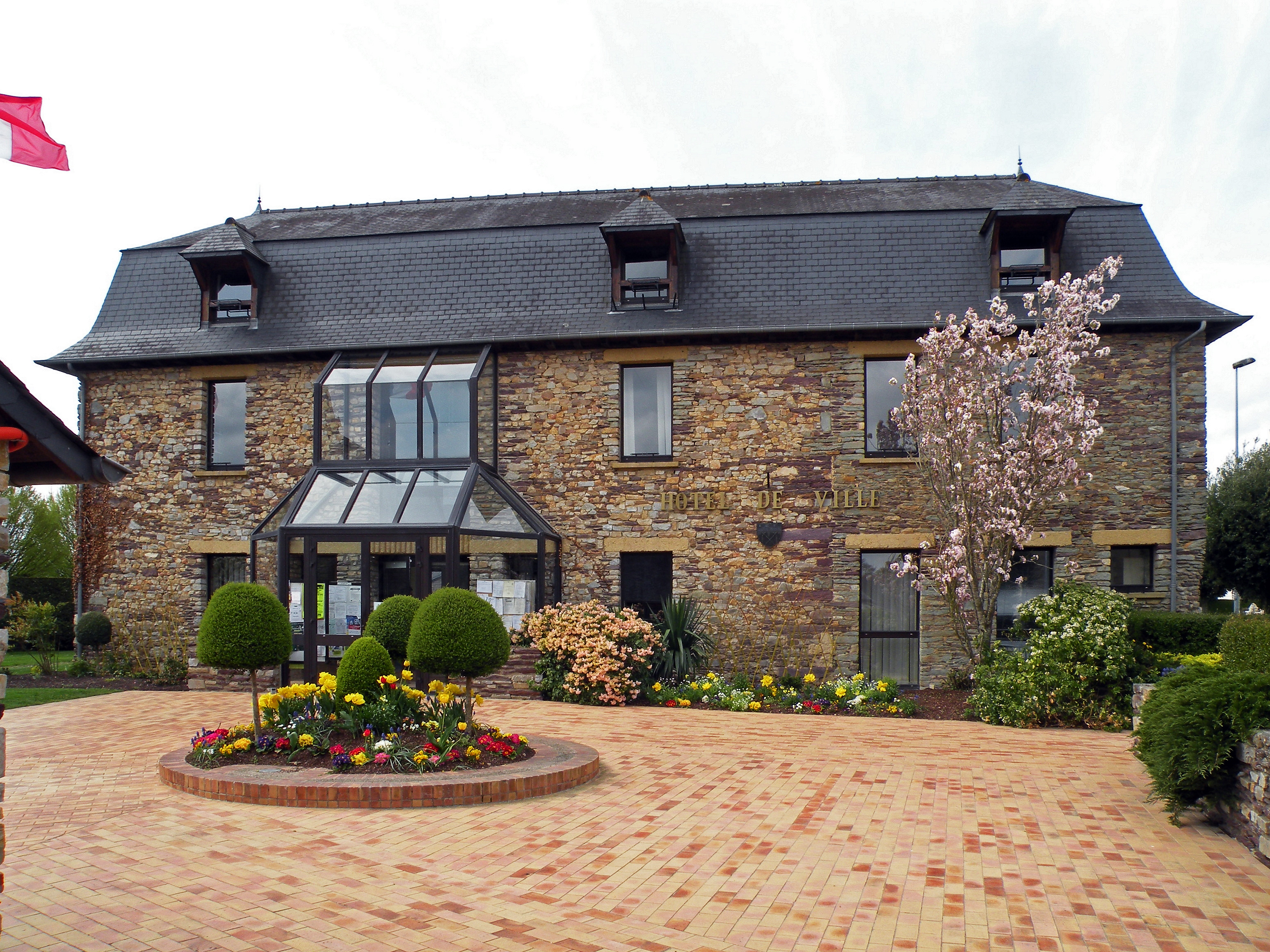 Town hall of Laillé